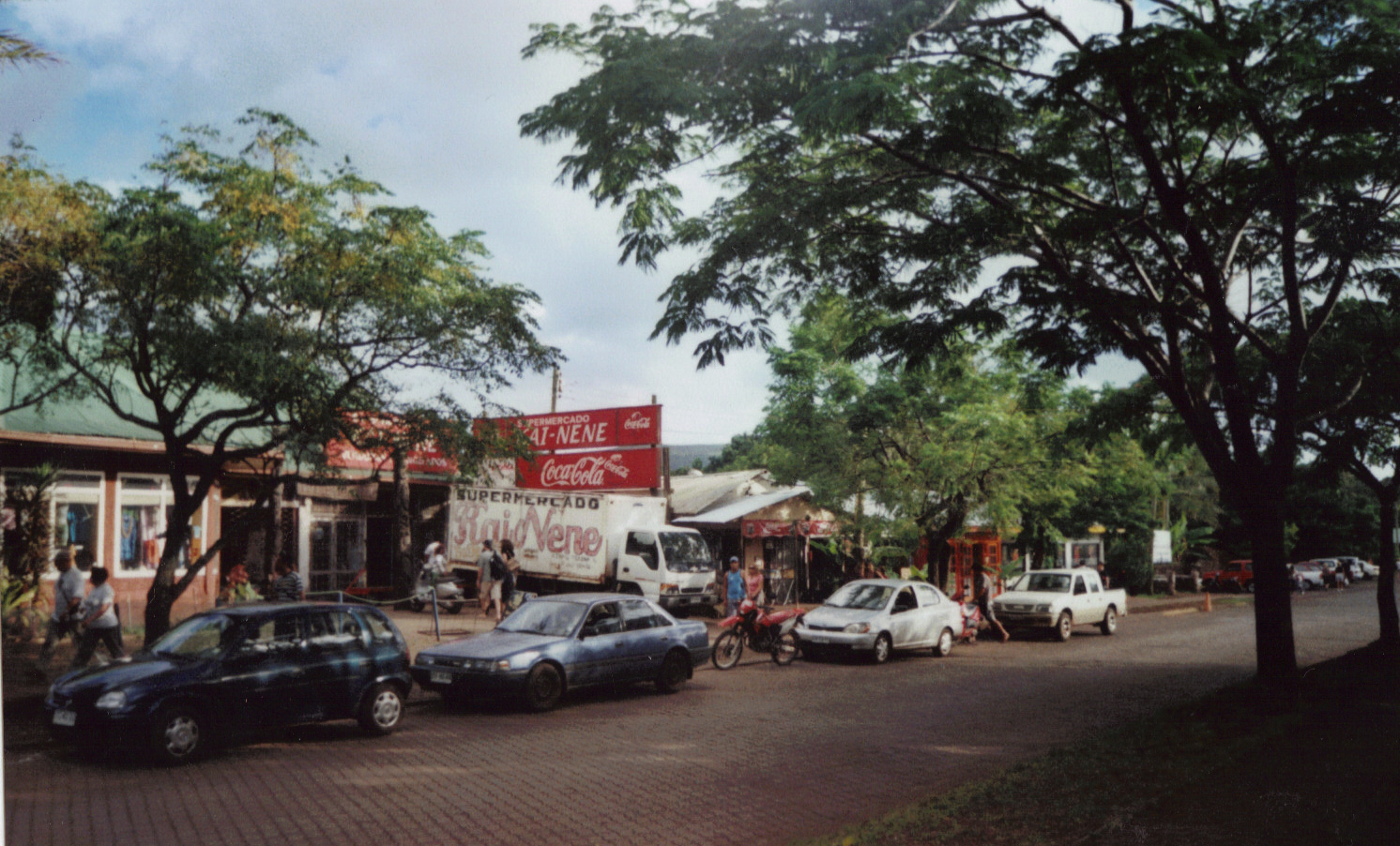 Hangaroa, Main Street Template:Castellano=Hangaroa, Calle Principal